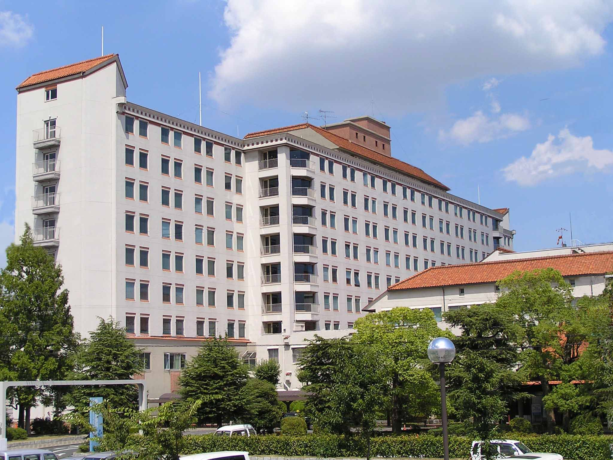 Kurashiki Central Hospital seen from west side